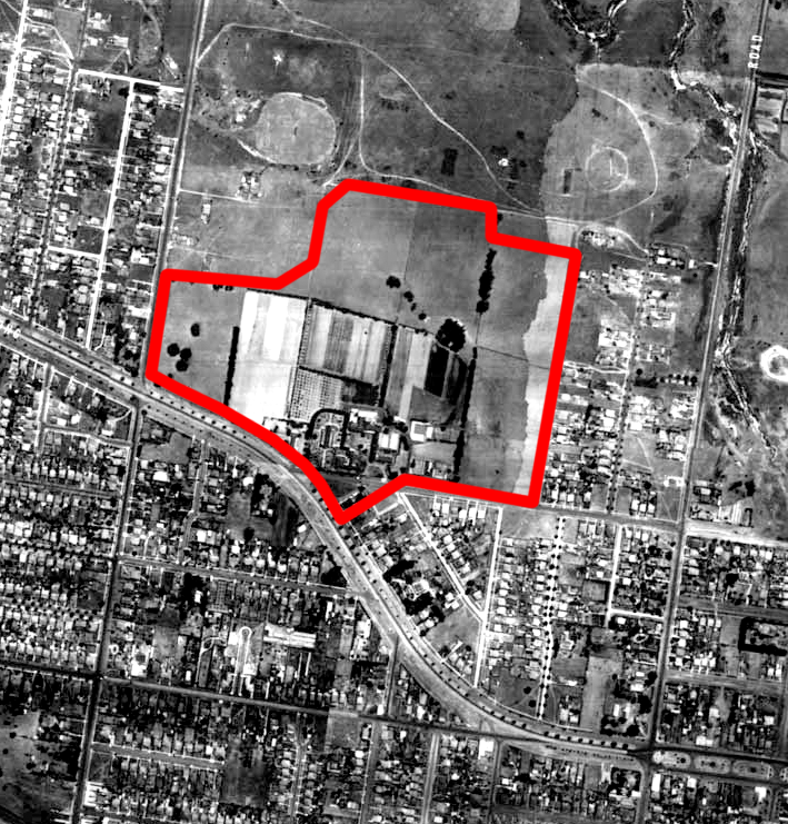 A cropped aerial photograph showing part of Chadstone, Victoria in en:1945 with a red perimeter marking placed on the map to mark where Chadstone Shopping Centre now stands. Can be used on Wikipedia under Australian Government Crown Copyright laws. The image has been cropped, brightness and contrast adjusted and marked from the original to show the subject of the image more clearly. Original image source: [1]